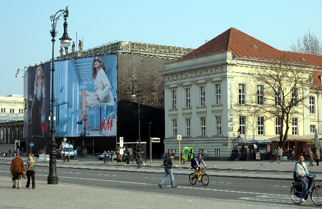 A H&M's billboard of Madonna's collection